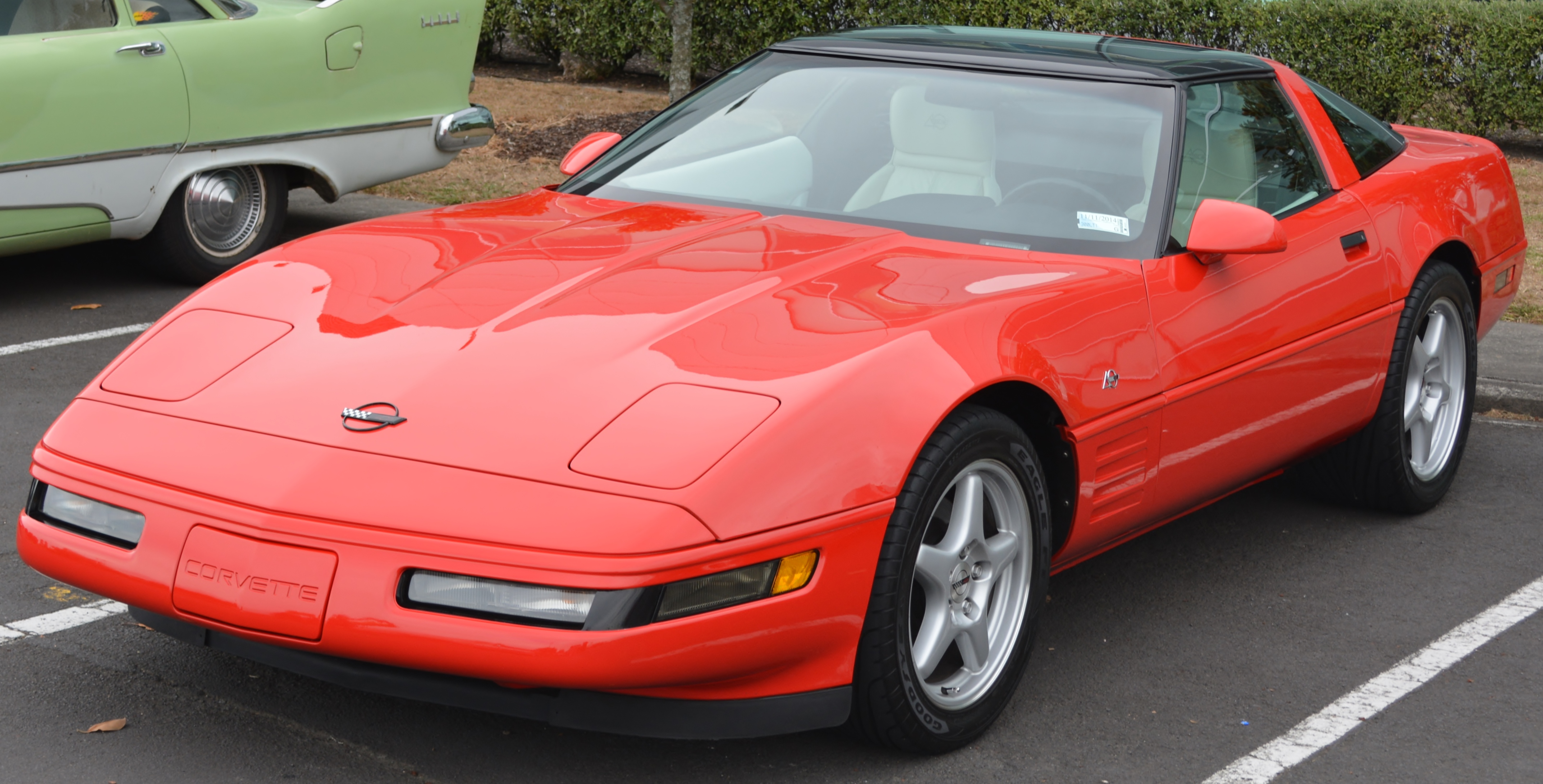 South Auckland,New Zealand